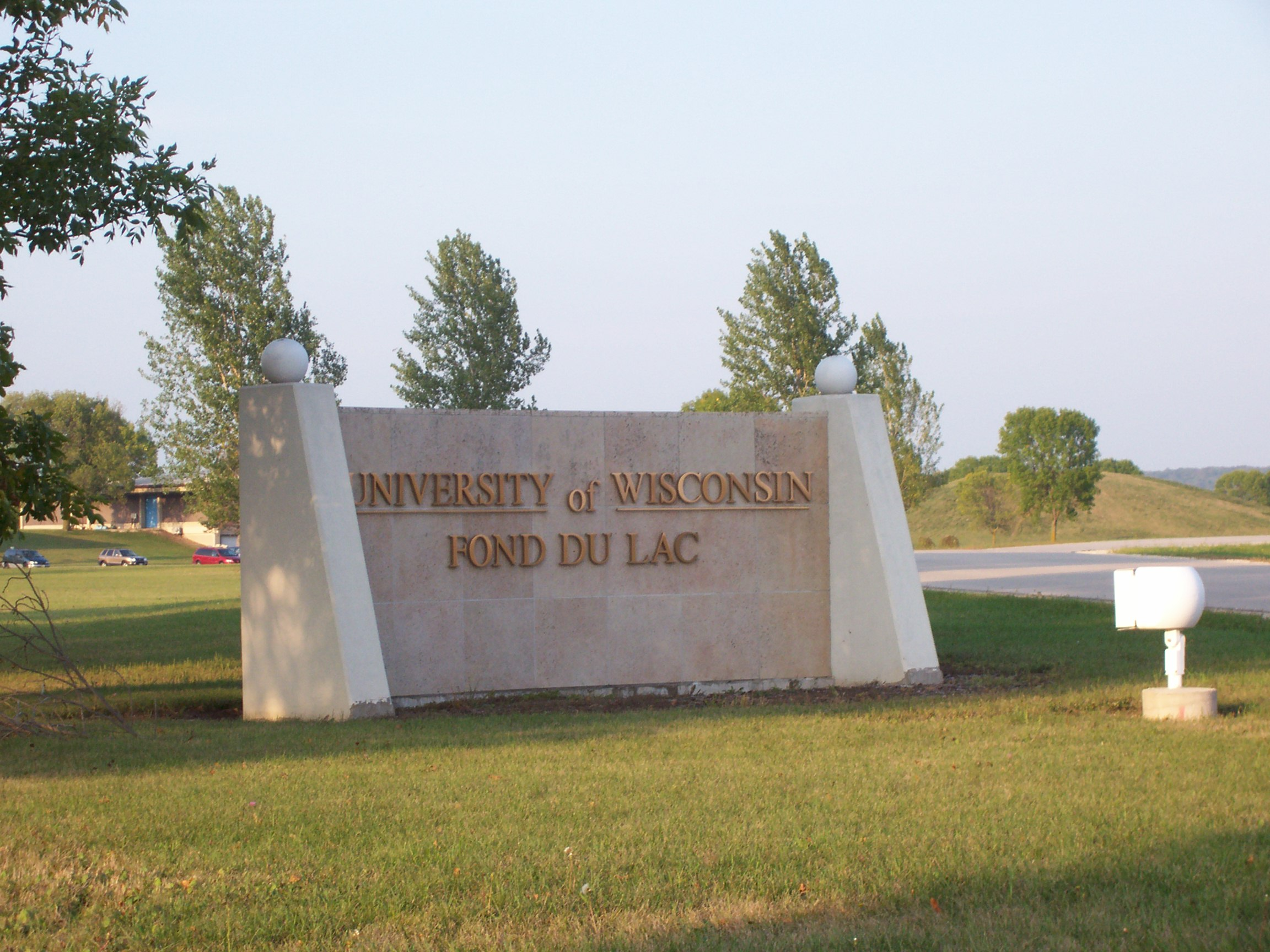 The University of Wisconsin-Fond du Lac campus' sign in Fond du Lac, Wisconsin. This image was taken September 15, 2006 by User:Royalbroil